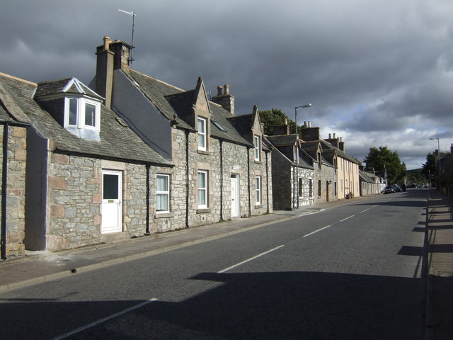 Main Street, Tomintoul An ex-mining community set at over 1000' elevation by the Military Road.